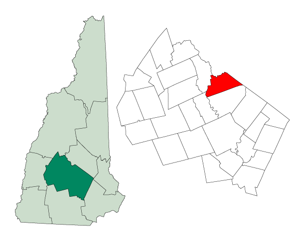 Map of a municipality in Merrimack County, New Hampshire